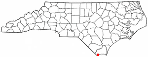 Category:North Carolina Dot Maps